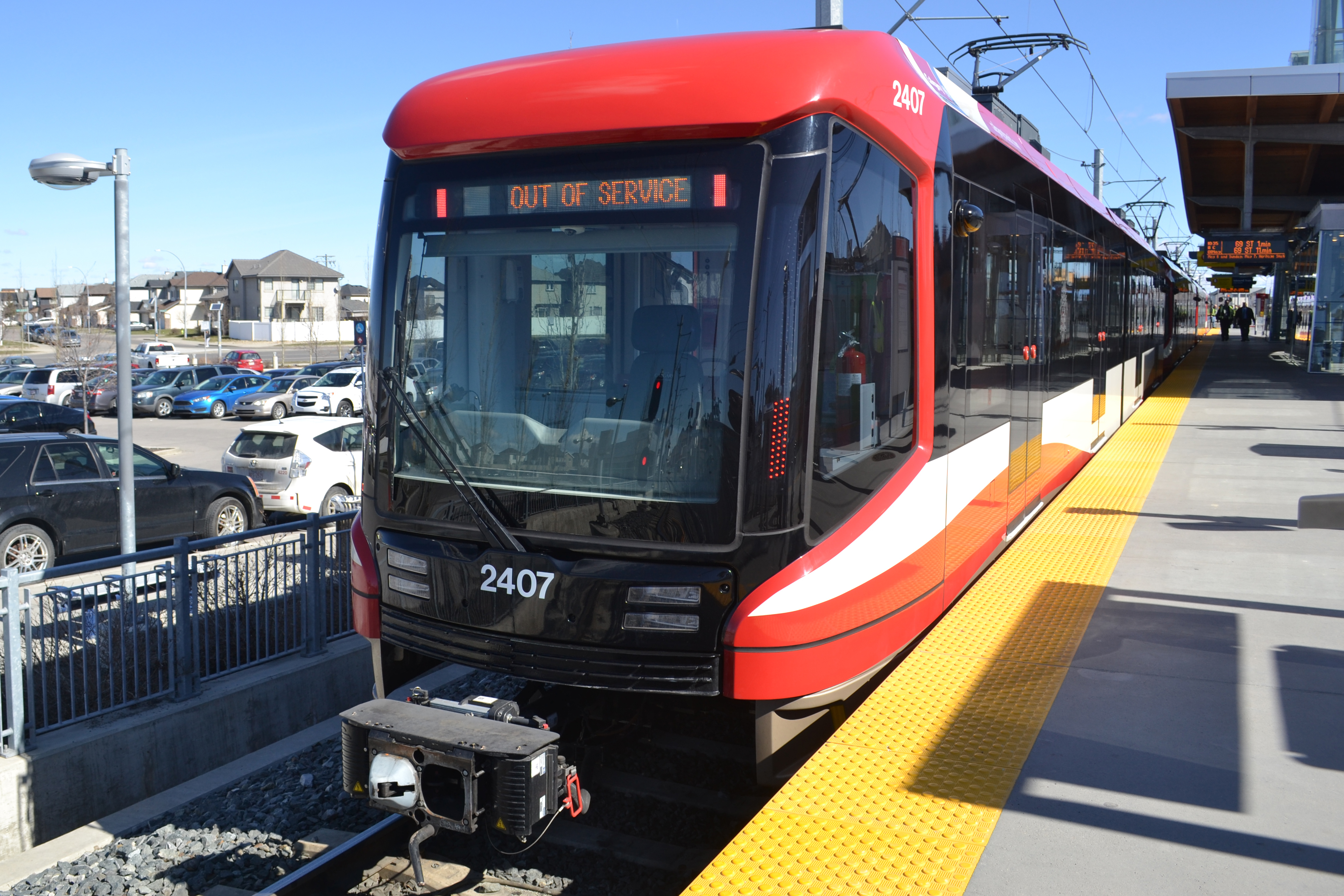 Calgary Transit S200 (#2407)